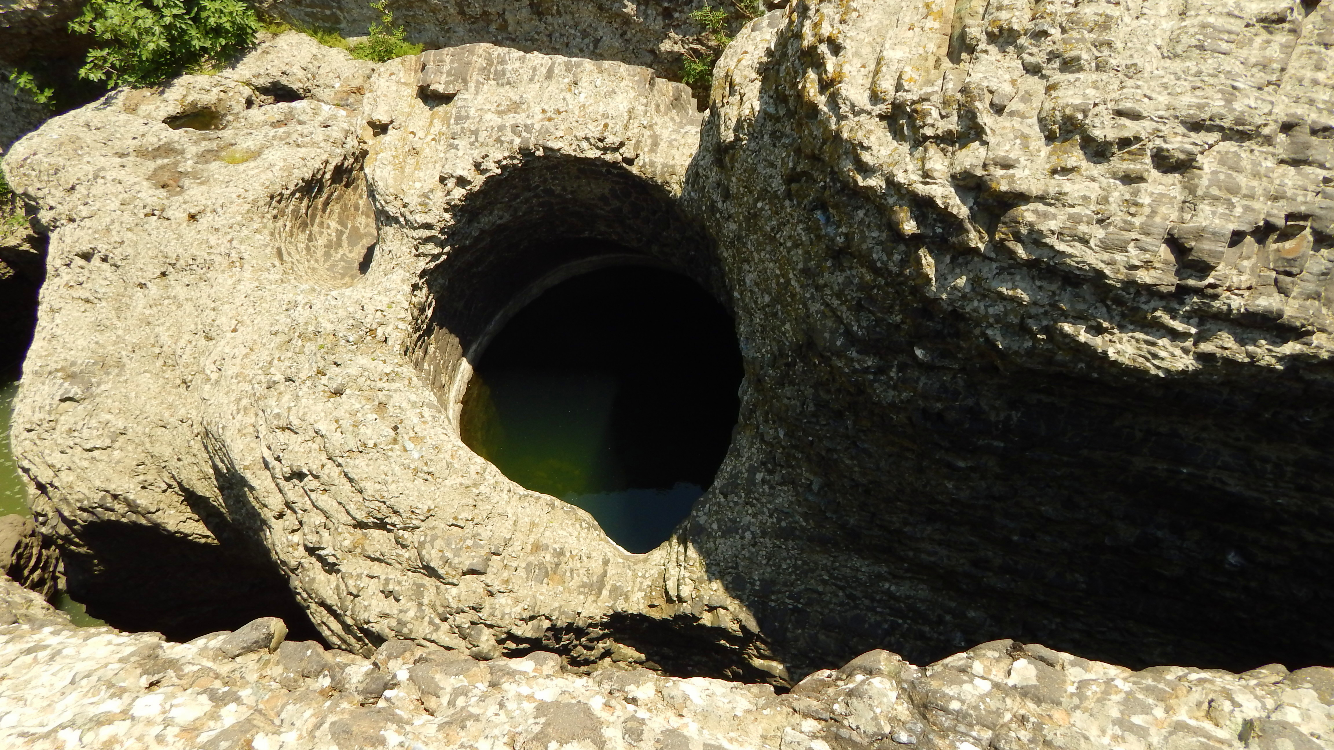 View near Rabovo village at Arda river, Bulgaria